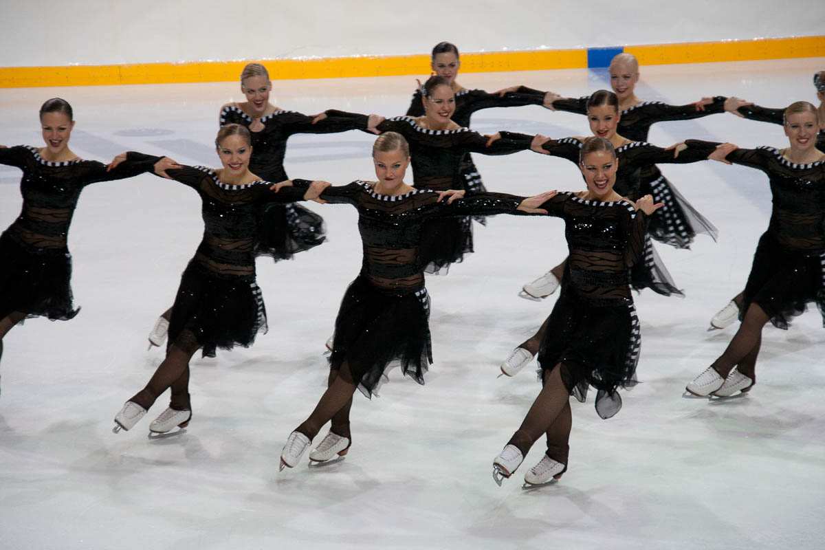 Rockettes, 2nd qualifier for Finnish championships, 2009 Helsinki